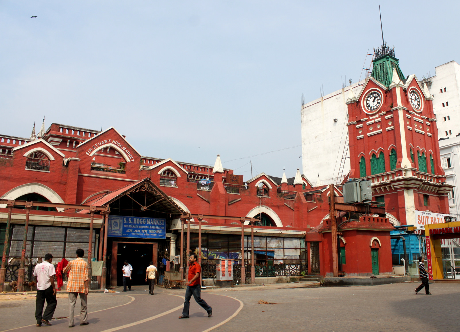 Photographed New Market, with the entrance signboard depicting its former name of S.S. Hogg market and the clock tower on October 1, 2011.